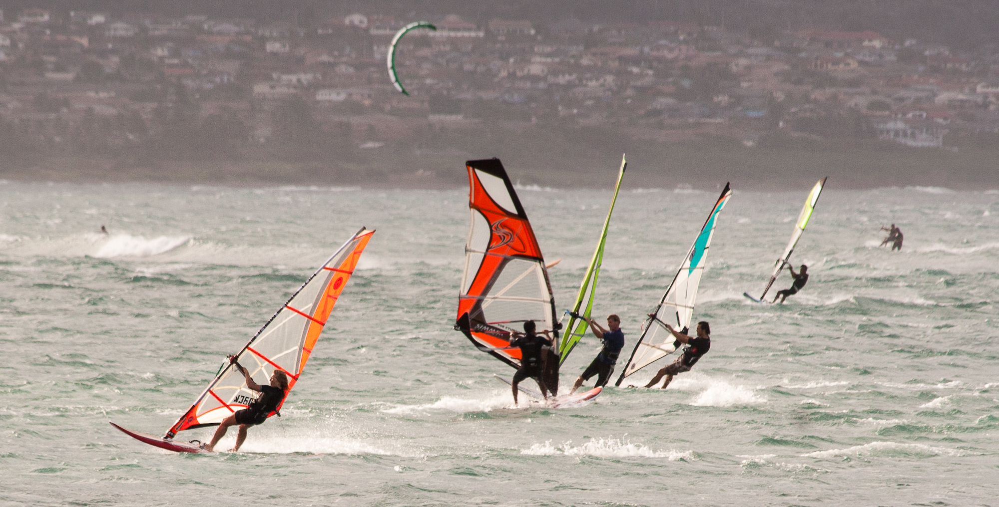 Way back in November 2011 I had a chance to spend a few days on Maui - it was my first time there in over 10 years and I had forgotten how nice it was. I did the normal things an Alaskan going to Hawaii does like chill out and catch some sun. Took the road to Hana and came back the forbidden back road - it really isn't that bad at all and the scenery is stunning; the road is like some Forest Service roads here. This is definitely a place I need to go back to!